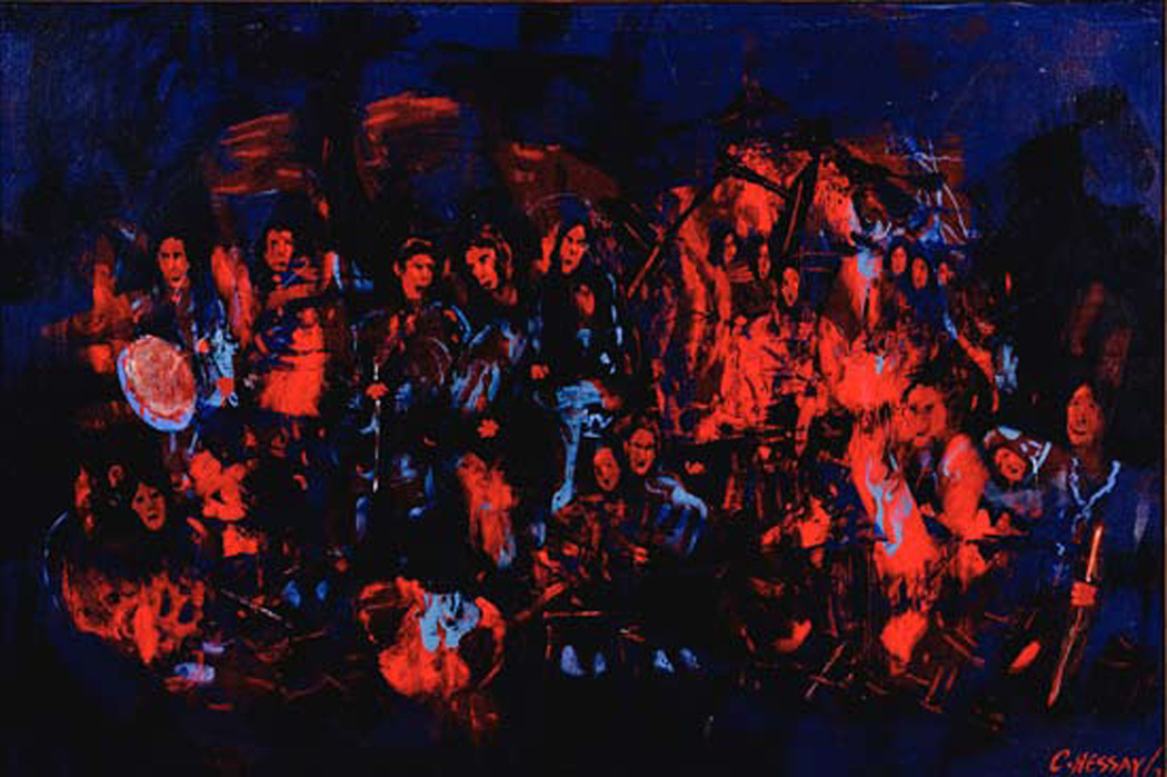 Wake for a Shuswap, a 1971 painting by Carle Hessay (1911-1978)